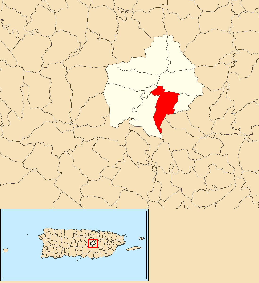 Vega Redonda, Comerío, Puerto Rico locator map